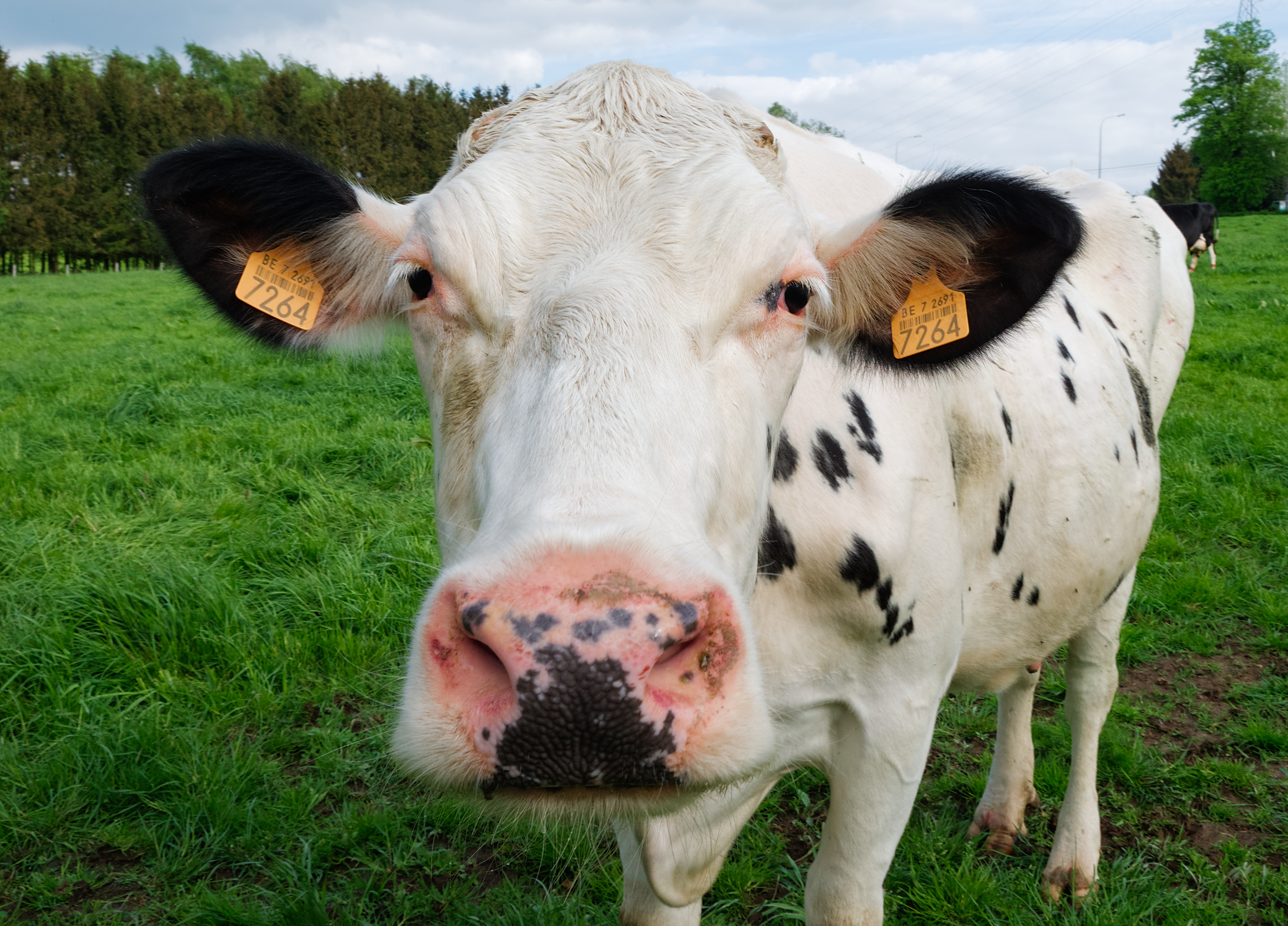 Cow along the RAVeL 5 L38 in Thimister-Clermont, Belgium